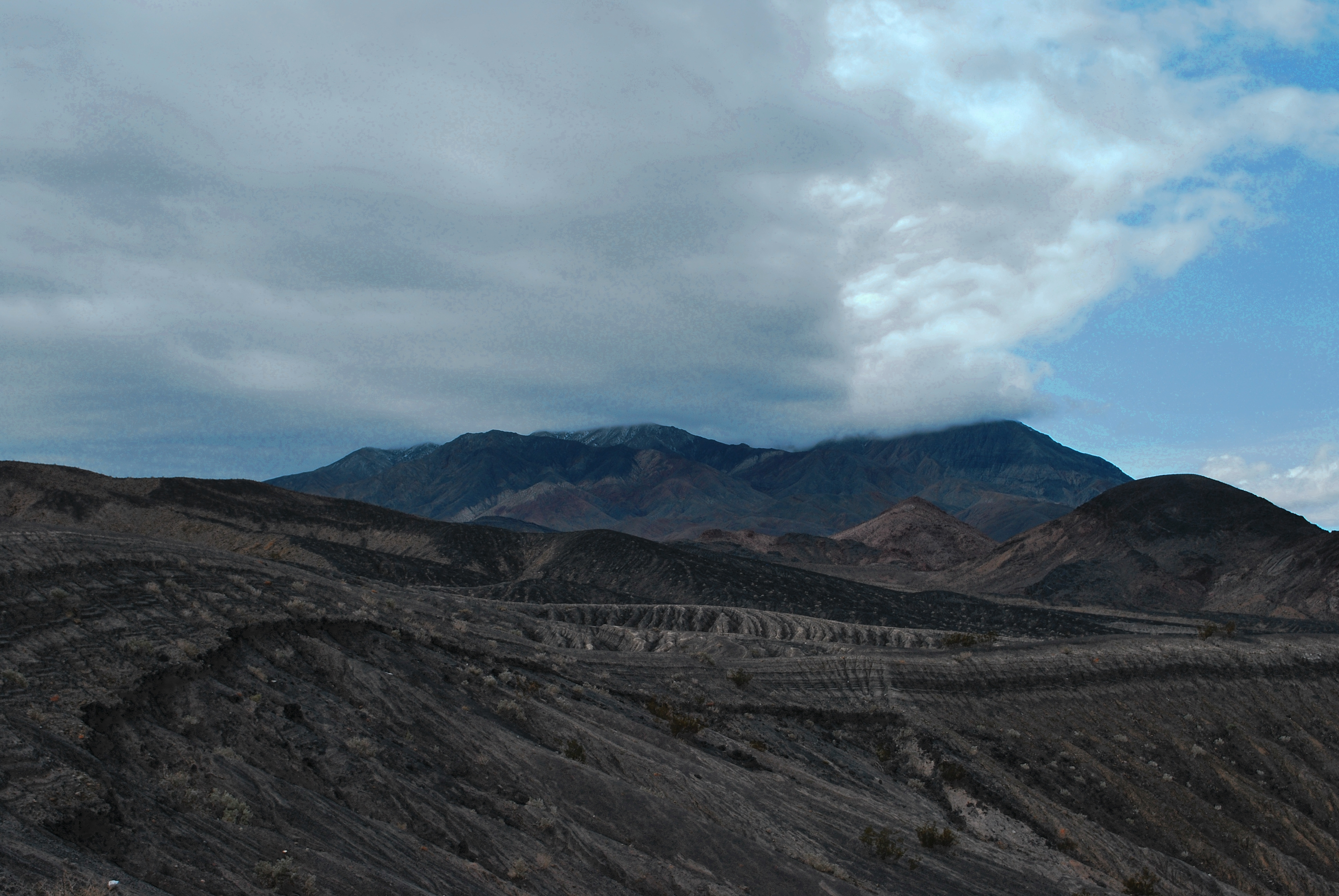 Tin Mountain in the background, shrouded